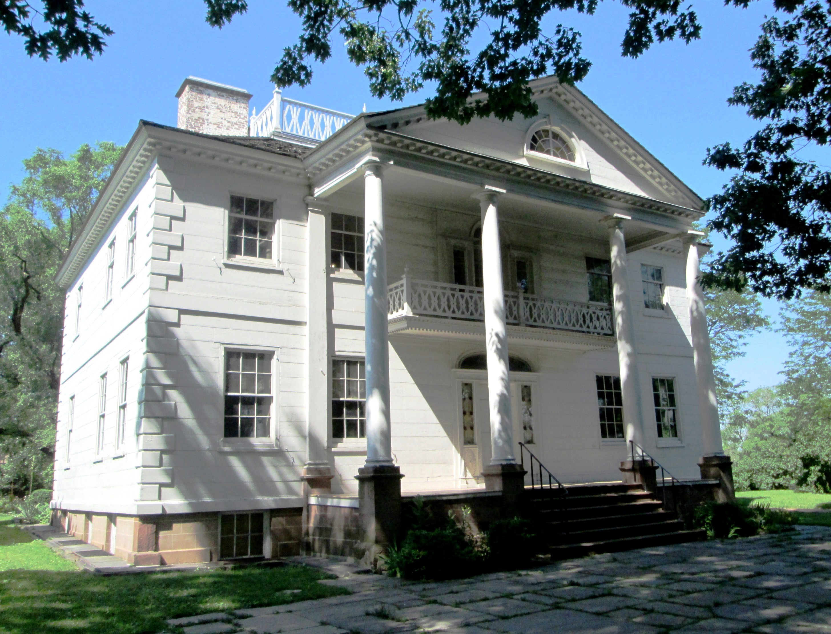 The Morris–Jumel Mansion, also known as the Roger and Mary Philipse Morris House, "Mount Morris" and other similar names, located at 65 Jumel Terrace in Roger Morris Park in the Washington Heights neighborhood of Manhattan, New York City, is the oldest house in the borough. It was built in 1765 in the Palladian style by Roger Morris, a British military officer, and served as a headquarters for both sides in the American Revolution. It was bought in 1810 by Stephen and Eliza Jumel, and remodeled in the Federal style. The interiors are Georgian. Aaron Burr later married Eliza Jumel and lived in the house. The estate was sold off in lots after 1882. Z(Sources: Guide to NYC Landmarks(4th ed.) and AIA Guide to NYC (5th ed.))